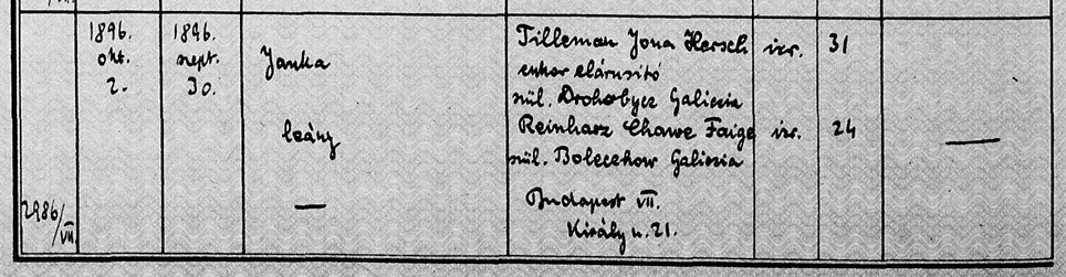 This is the birth record for Jolie Gabor.